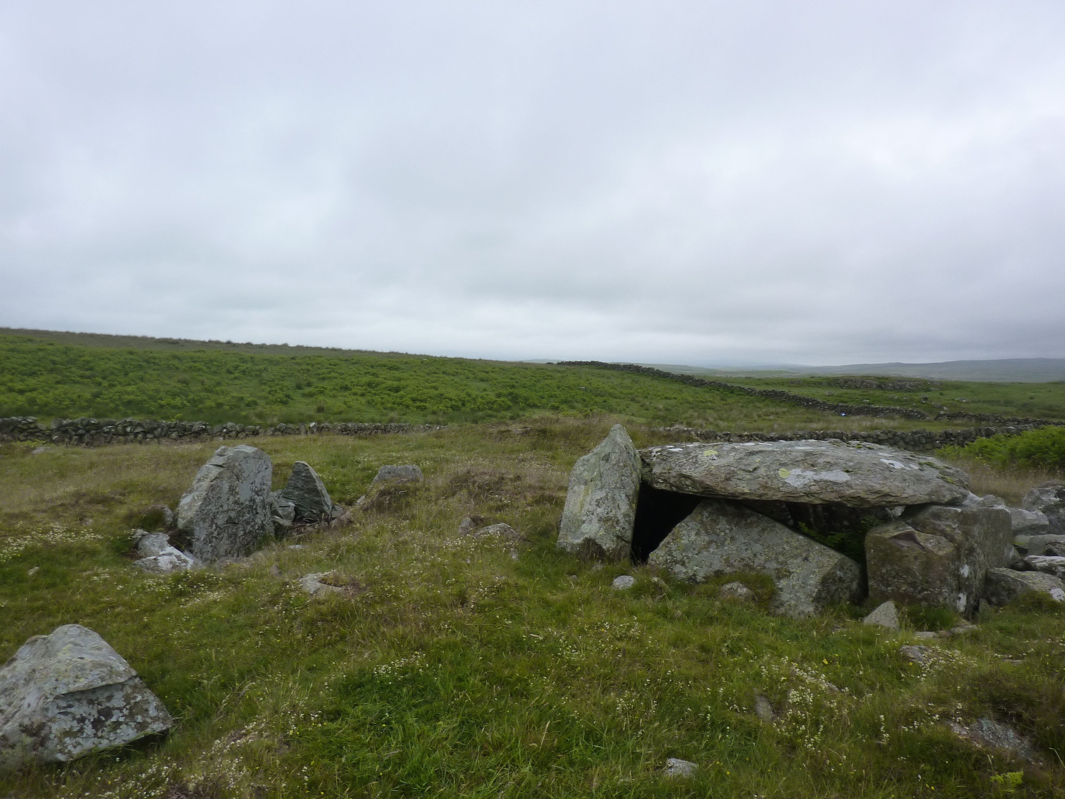 Caves might be pushing it a little. These are clearly chambered cairns. Day 3 on the Southern Upland Way blogged about at .uk/southernuplandway/day3